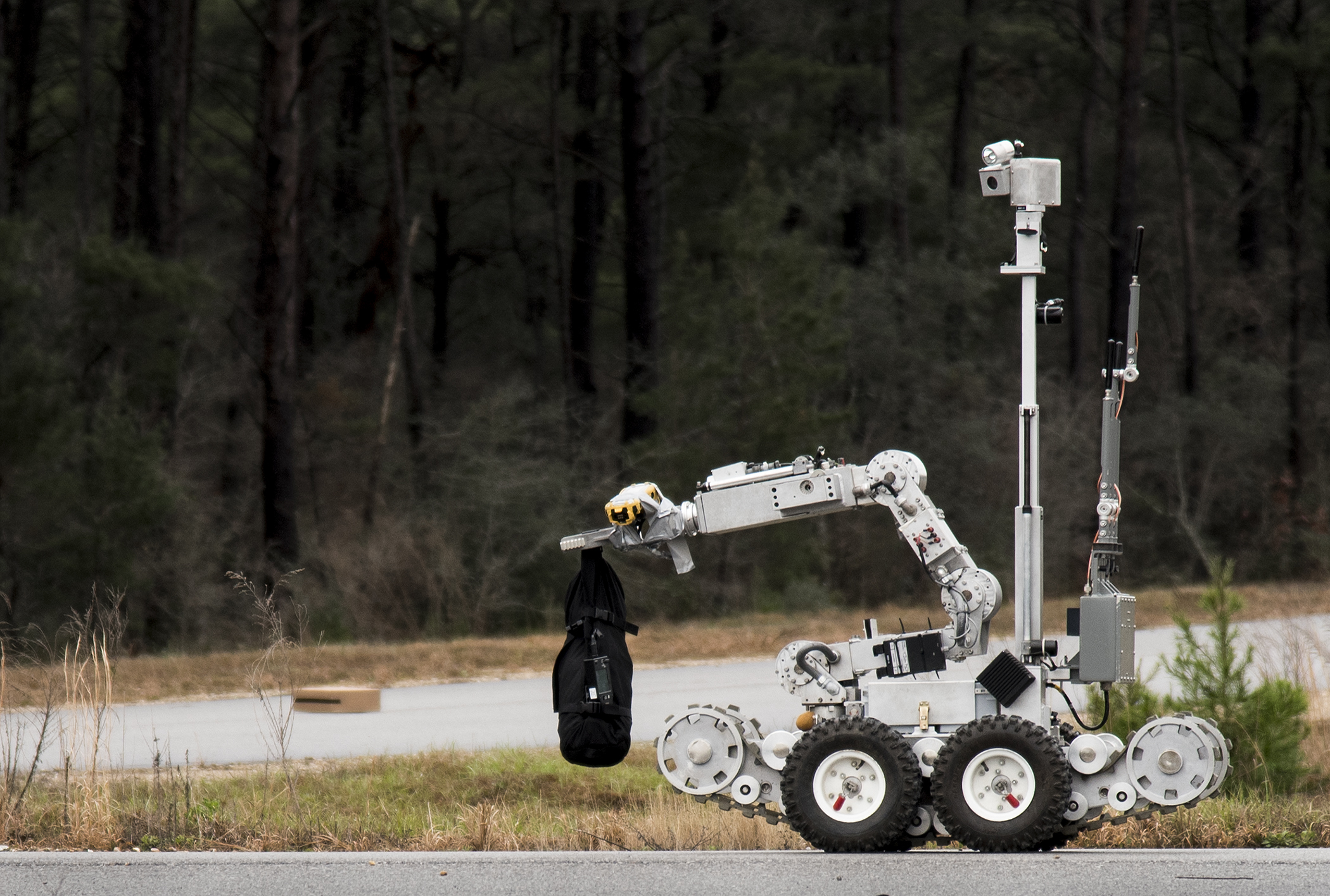 An explosive ordnance disposal robot approaches a suspicious package during an exercise Feb. 22 at Eglin Air Force Base, Fla. The chemical, biological, nuclear response exercise tested the procedures of emergency response, explosive ordnance disposal, emergency management and bioenvironmental agencies among others. (U.S. Air Force photo/Samuel King Jr.) Unit: Eglin Air Force Base DVIDS Tags: airmen; eglin; 33rd; air force base; Florida; aircraft; air force; airman; Sam King; samuel king jr; 33 fighter wing; 96 test wing; 96th TW; 53rd WG; NW Florida; 53rd wing